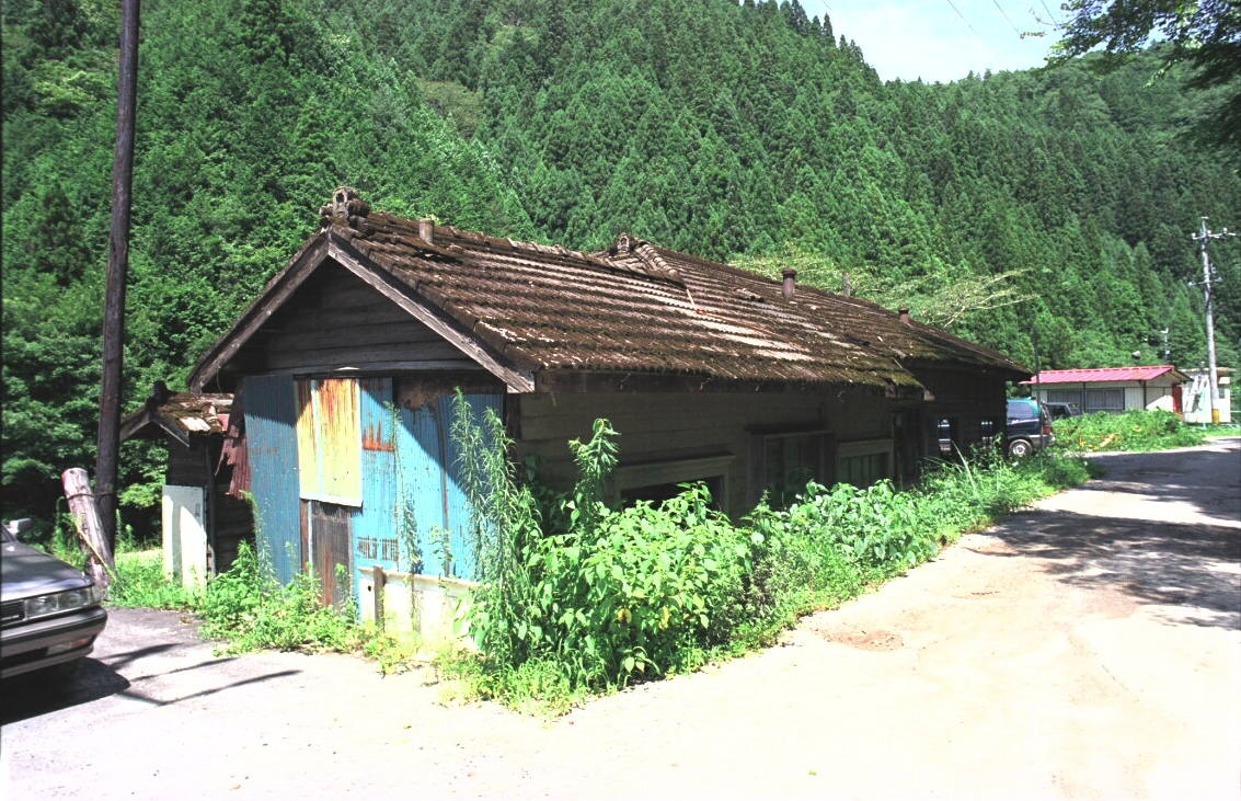 tagutitetudou mikawatagutieki